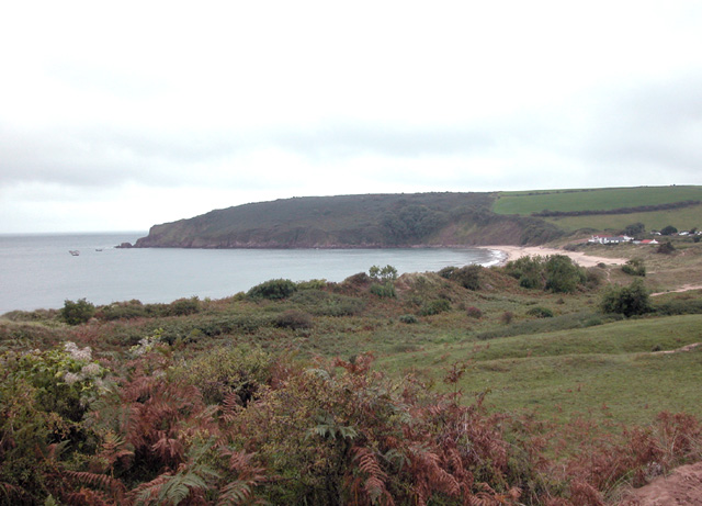 Coastal path. Trewent point from the Pembrokeshire Coastal path overlooking Freshwater East beach.